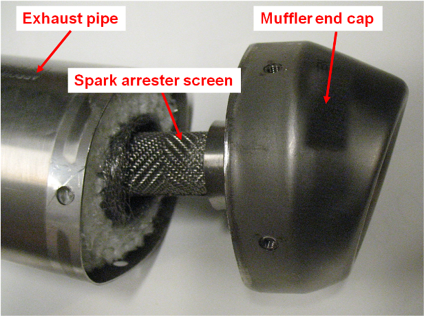 A disassembled screen type spark arrester assembly for a motorcycle.